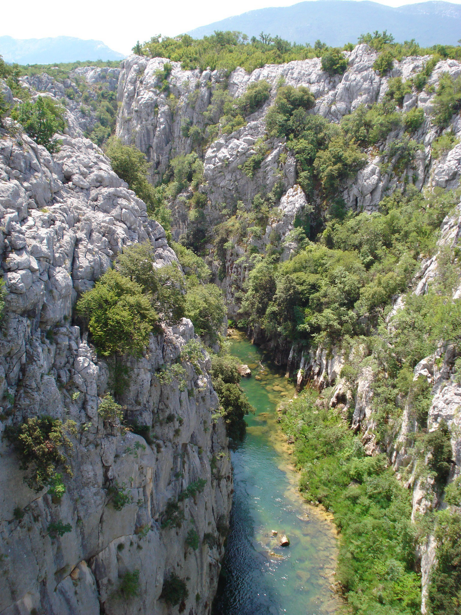 Cetina River Canyon at Šestanovac (Croatia)